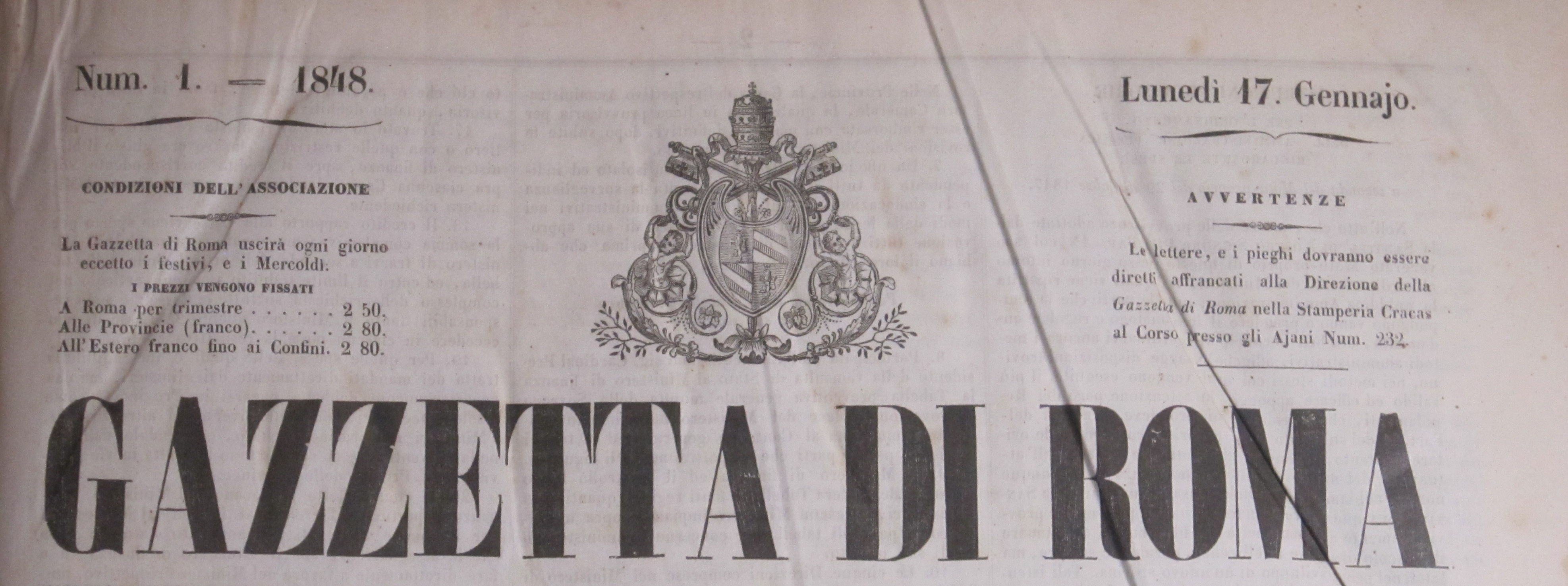 Magazine logo of first number of Gazzetta di Roma, released 1848, January 17th